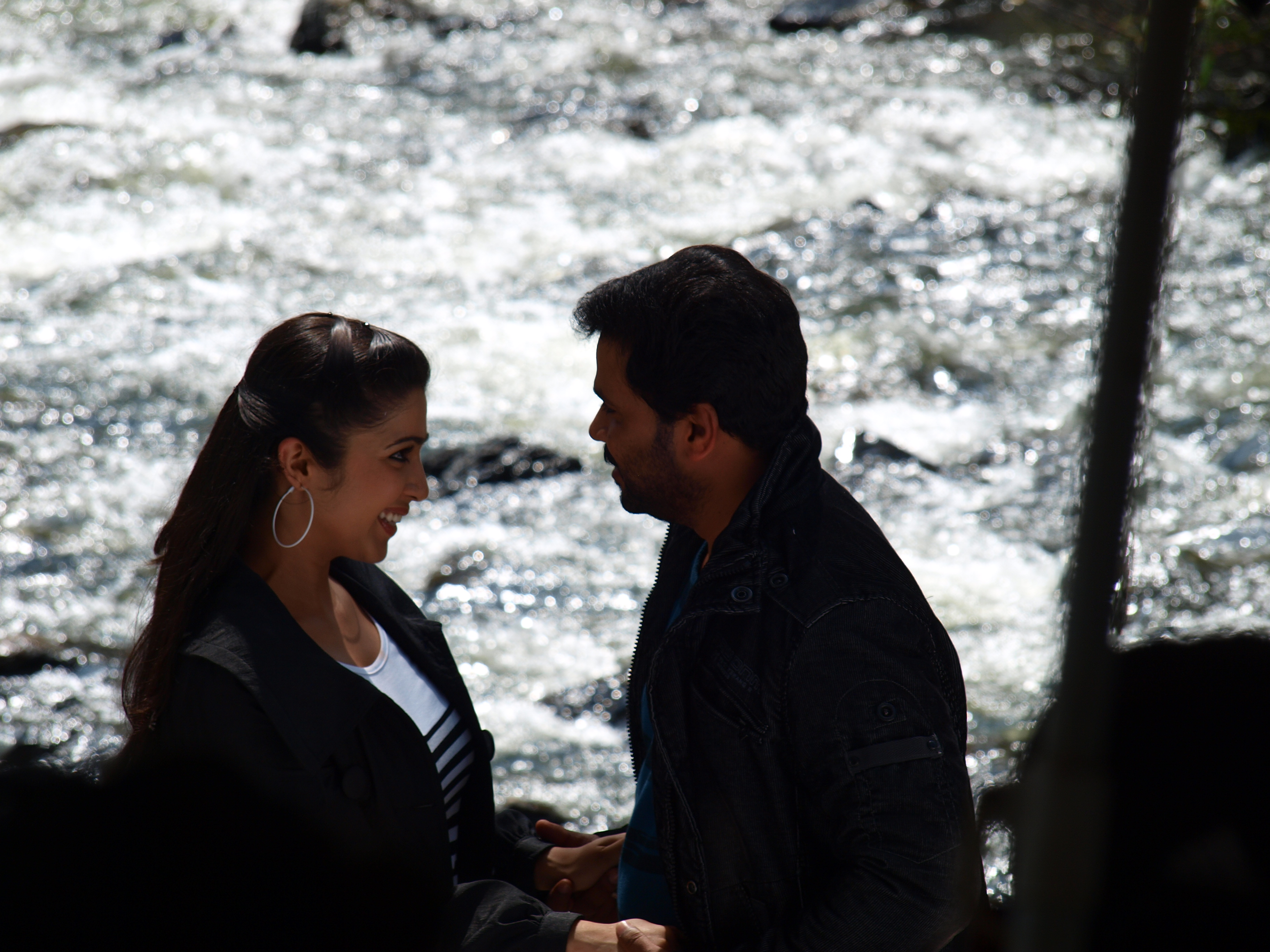 Aagathan shooting at Sivanasamudra falls